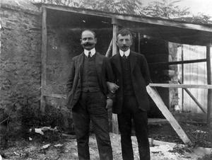 Dimitrios Kakavos (left), Andreas Kourouklis (right)